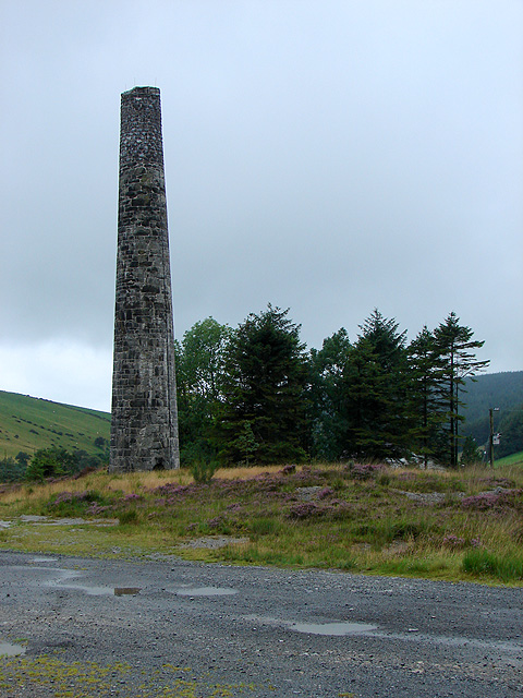 A surviving mine chimney in Cwmsymlog This chimney has been retained in recognition of the importance of mining in the valleys east of Aberystwyth, particularly in the 18th and 19th centuries. The chimney was restored in 2006.